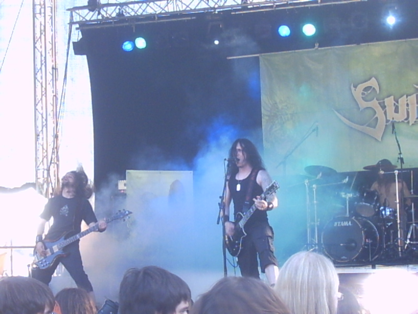 Suidakra live at the Rock Area Festival in Losheim, Germany on August, the 30th, 2008